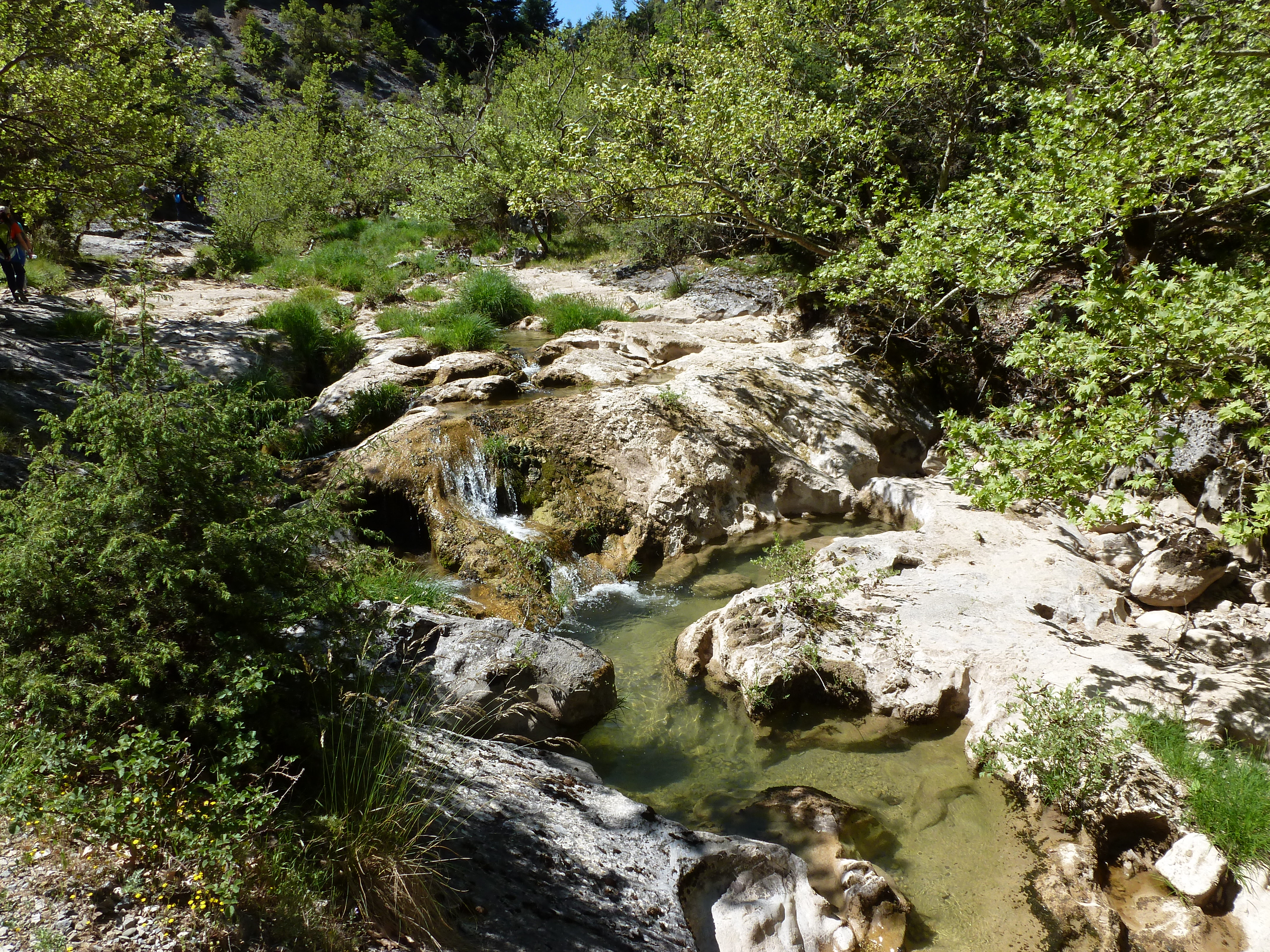 This is a photography of Natura 2000 protected area with ID GR2520001